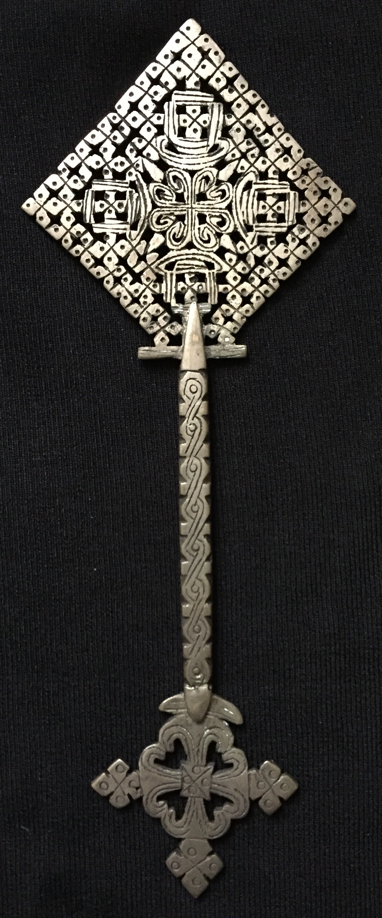 Ethiopian Orthodox, hand-held, brass blessing cross : shape and execution in lattice-work characteristic of Ethiopian style / workmanship. Exact provenance unknown.